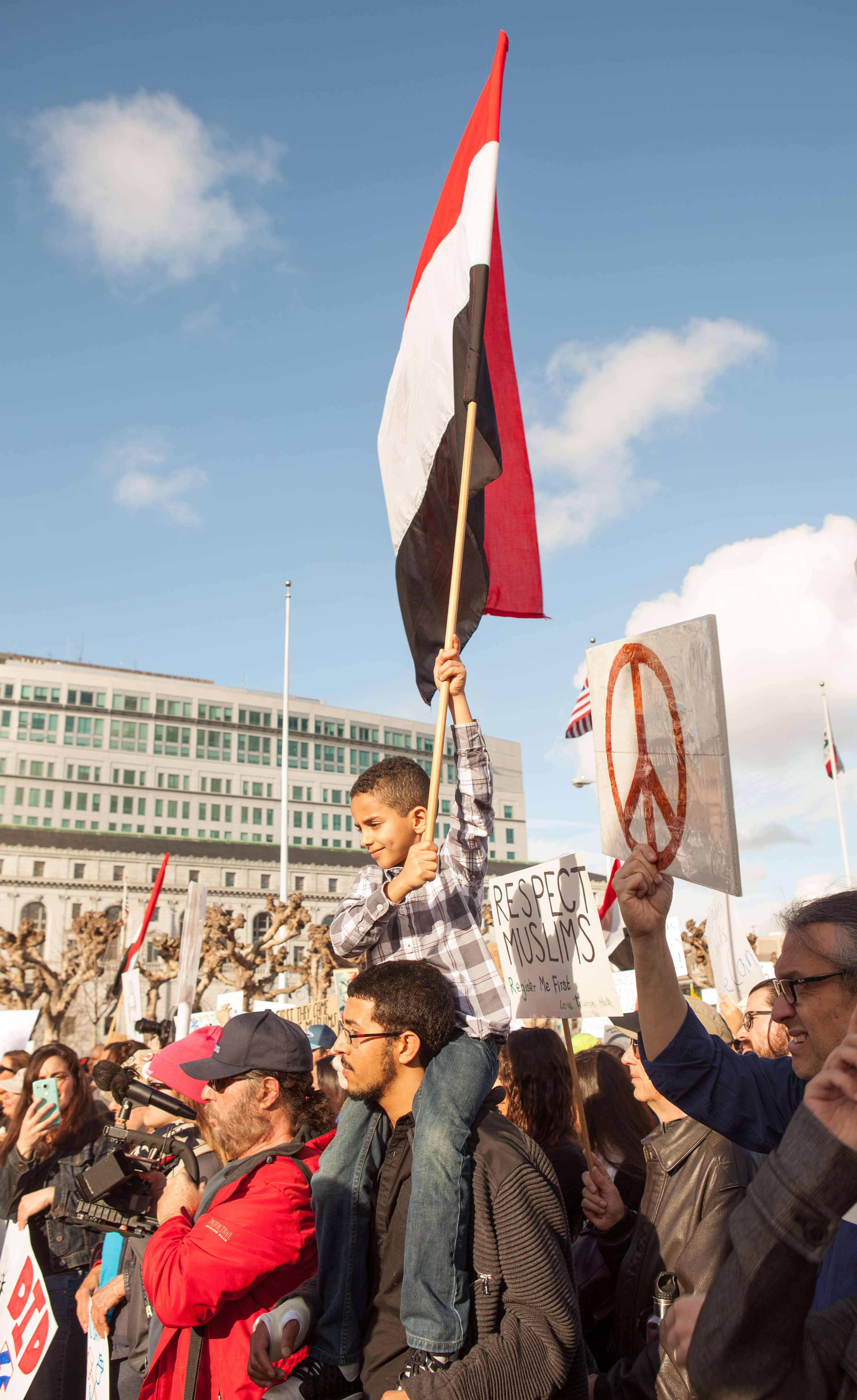 A child holding the flag of Yemen sits on an adult's shoulders at a San Francisco protest of the U.S. immigration ban.